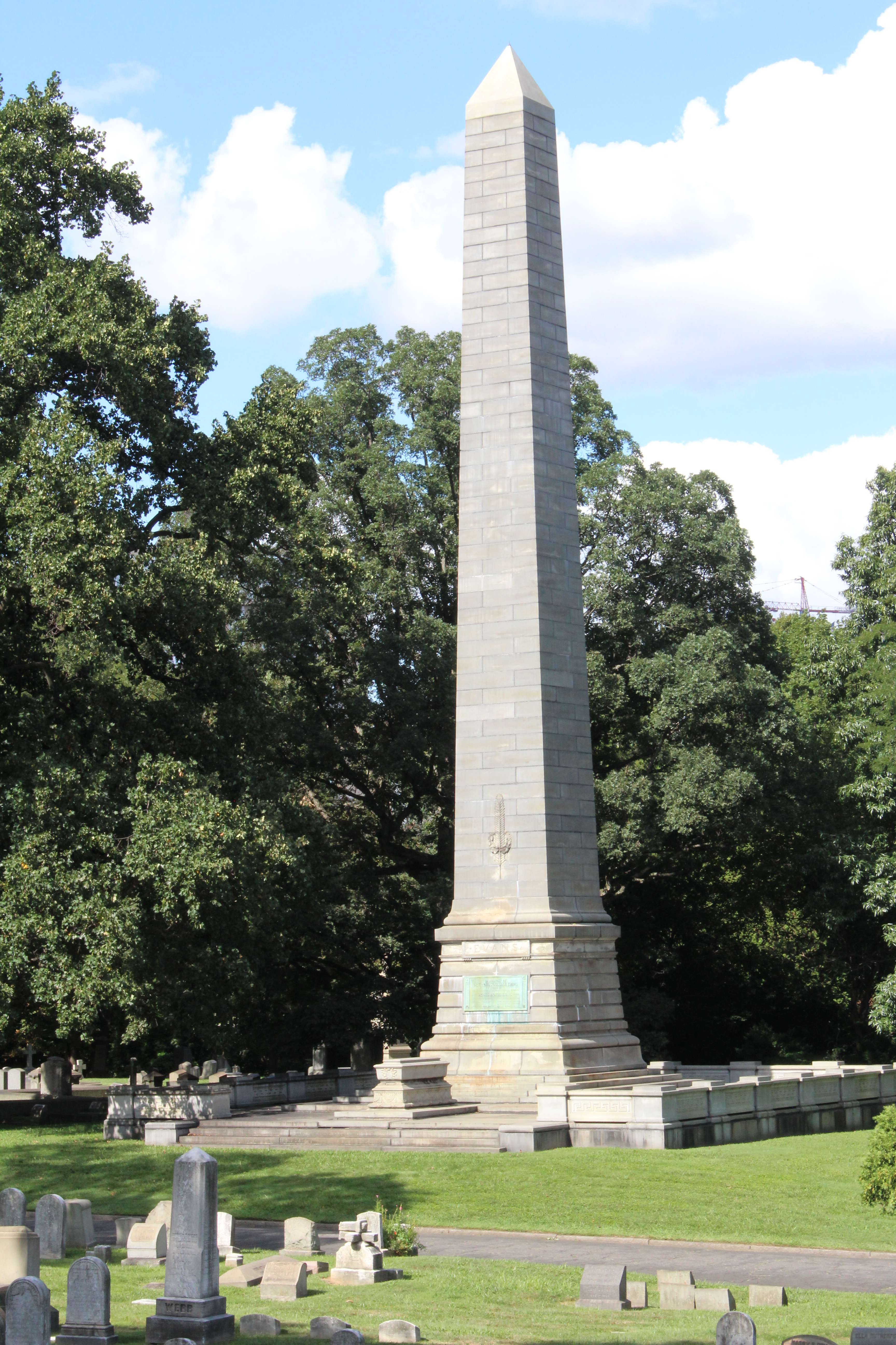 Thomas W. Evans Memorial at the Woodlands Cemetery in Philadelphia, Pennsylvania. Photo taken August 2019.